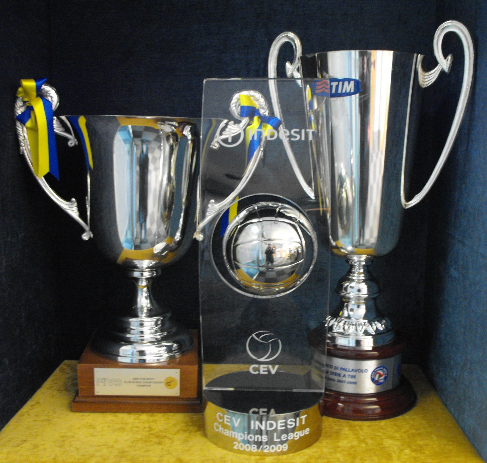 Trentino Volley's Cups: FIVB Club World Championship (2009), Champions League (2009) and Italian Championship (2008)